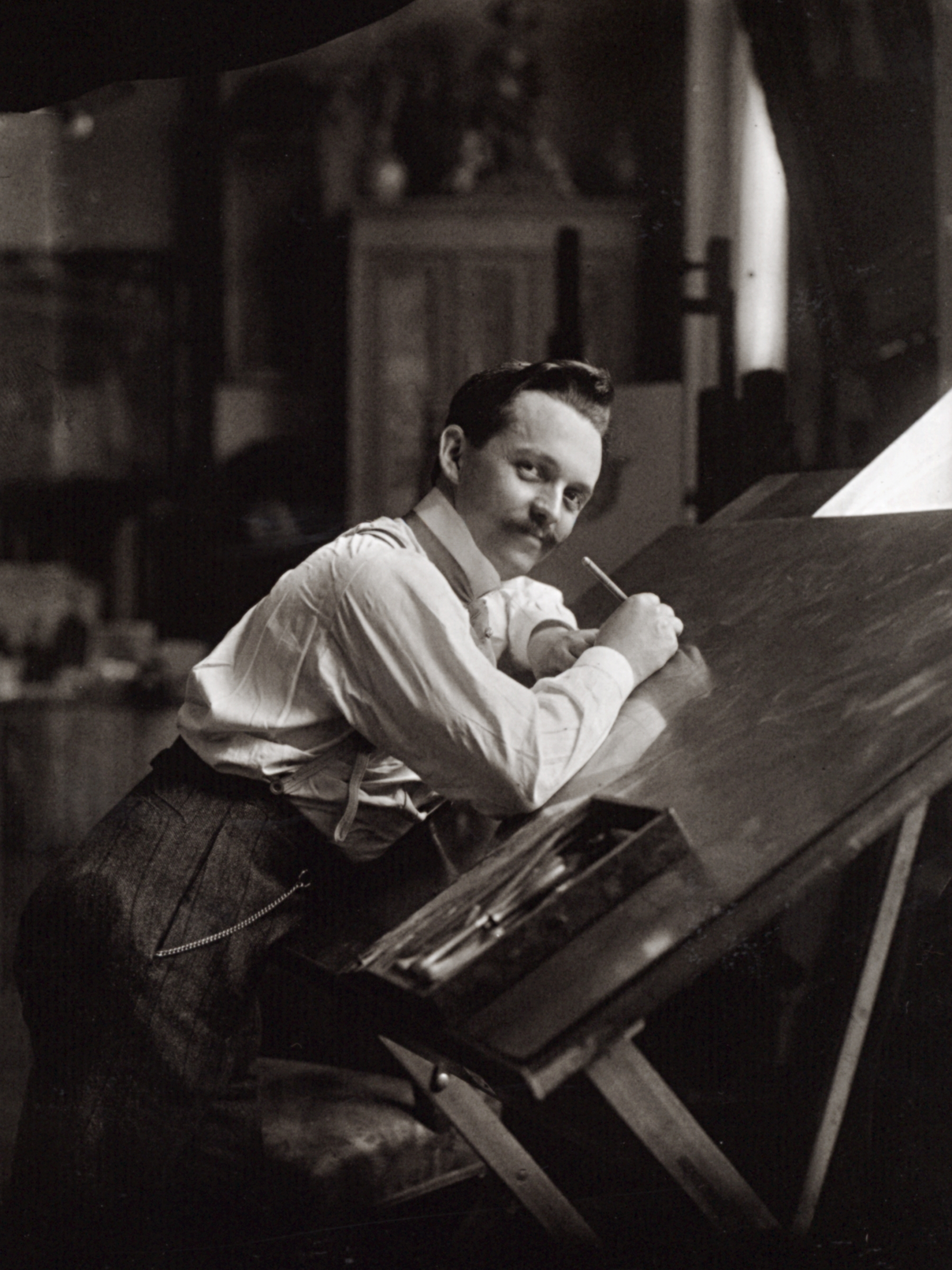 Austrian engraver and photographer Ferdinand Schmutzer in his studio in Vienna, self portrait, ca. 1910